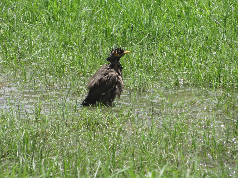 Common Myna ((Acridotheres tristis) bathing in a rain water puddle at Central Park, Kolkata, West Bengal, India